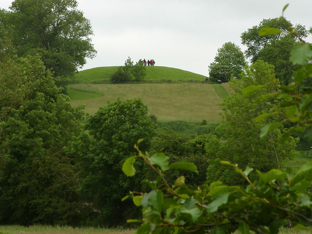 Navan Fort, County Armagh